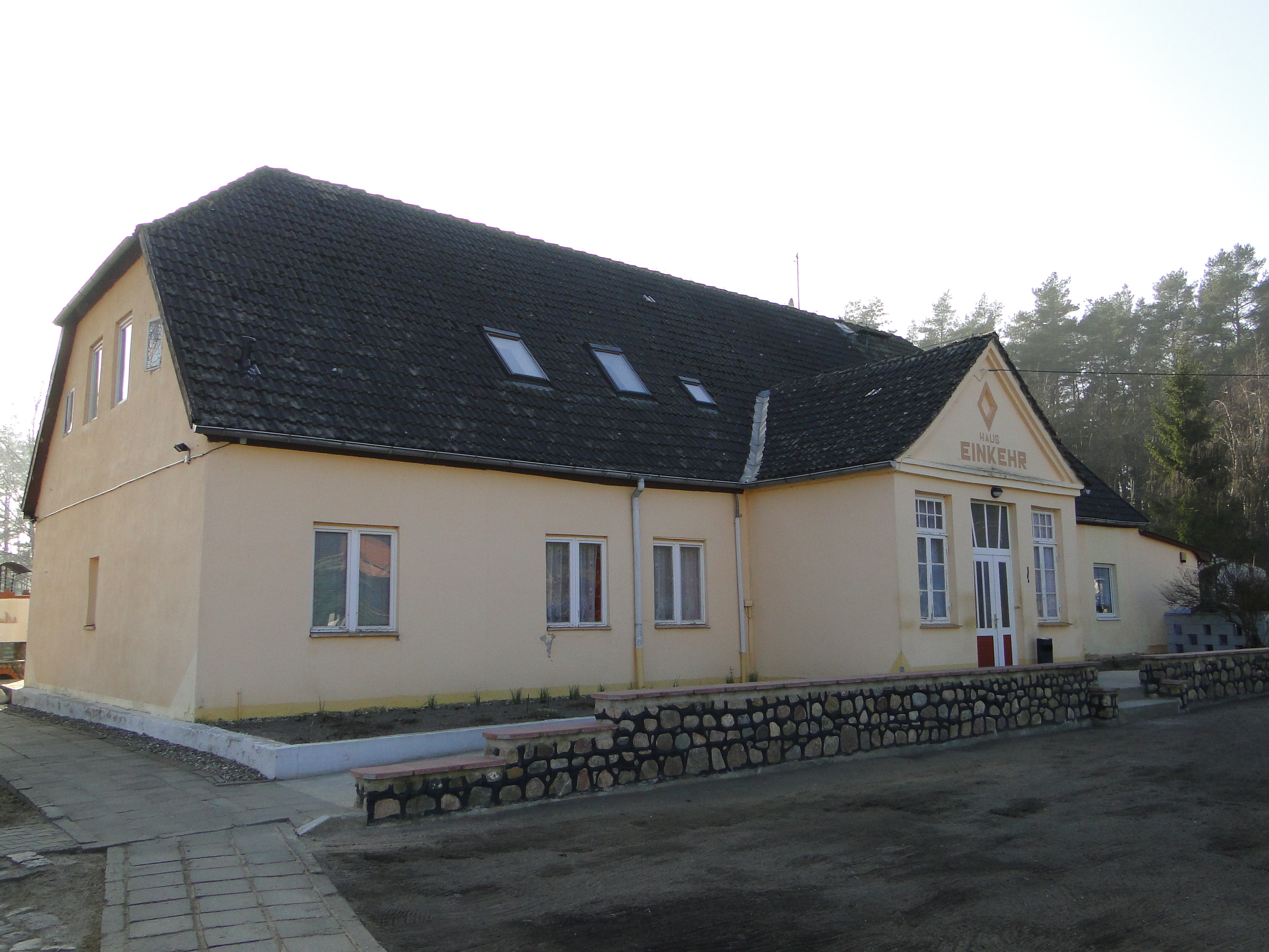 Manor house in Bossow, district Güstrow, Mecklenburg-Vorpommern, Germany